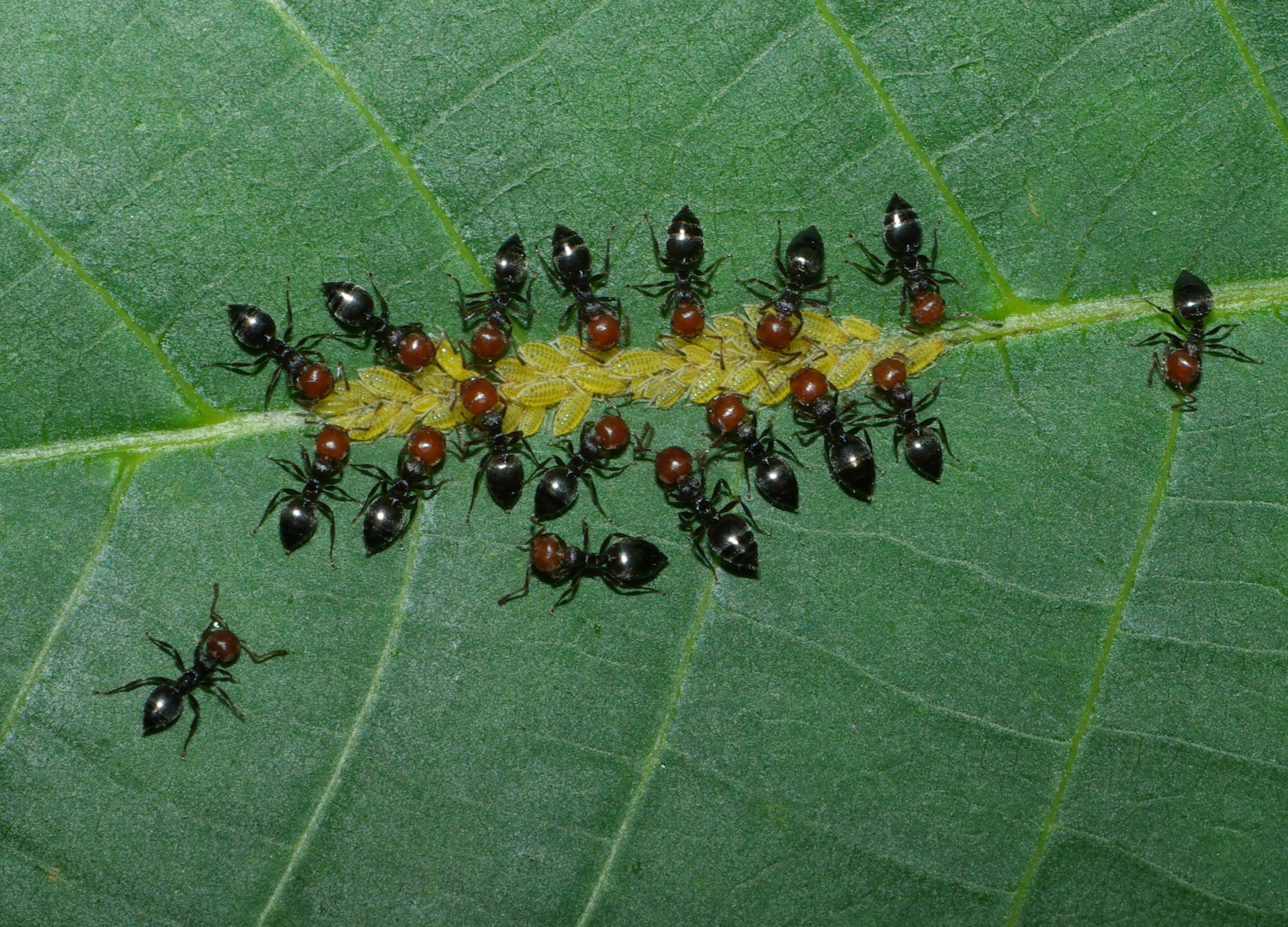 Ants in a row with fruit mite